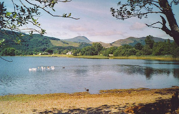 Looking west along Loch Ard from Ledard.